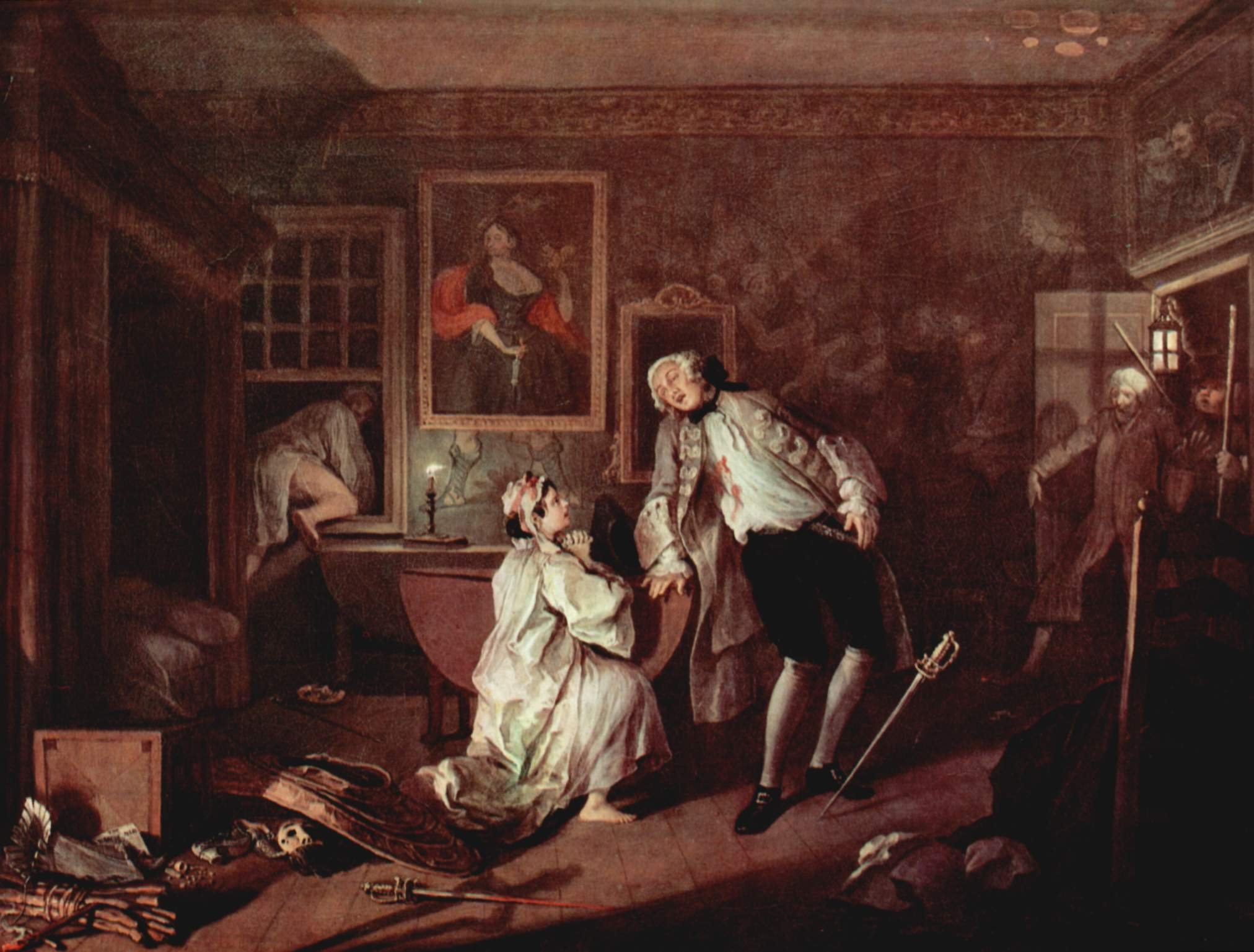 This episode takes place in the Turk's Head Bagnio in Bow Street, Covent Garden, identified by a bill on the floor by the upturned table on the left. The Turk's Head actually existed and was kept by a Mrs Earl.